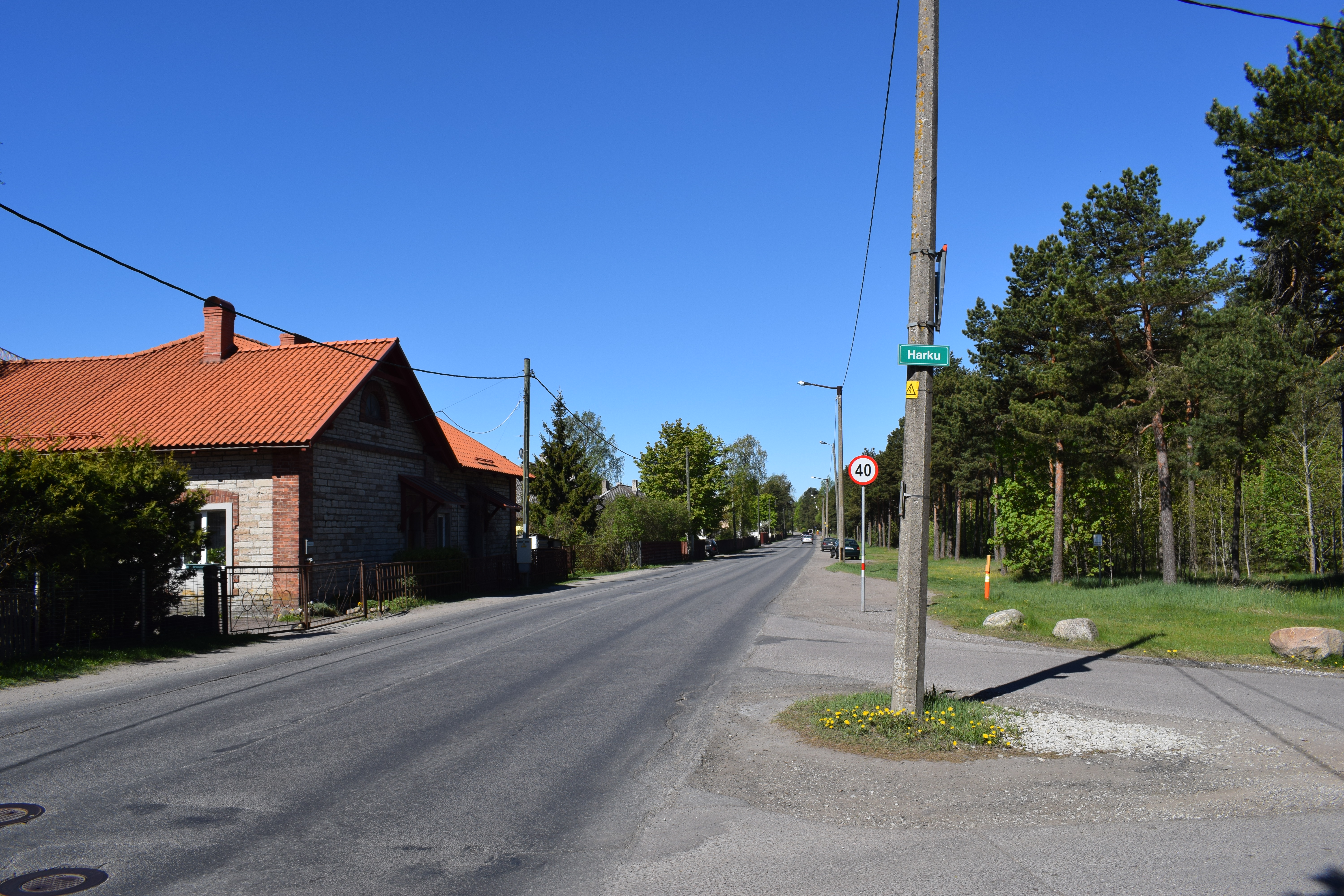 Vääna street